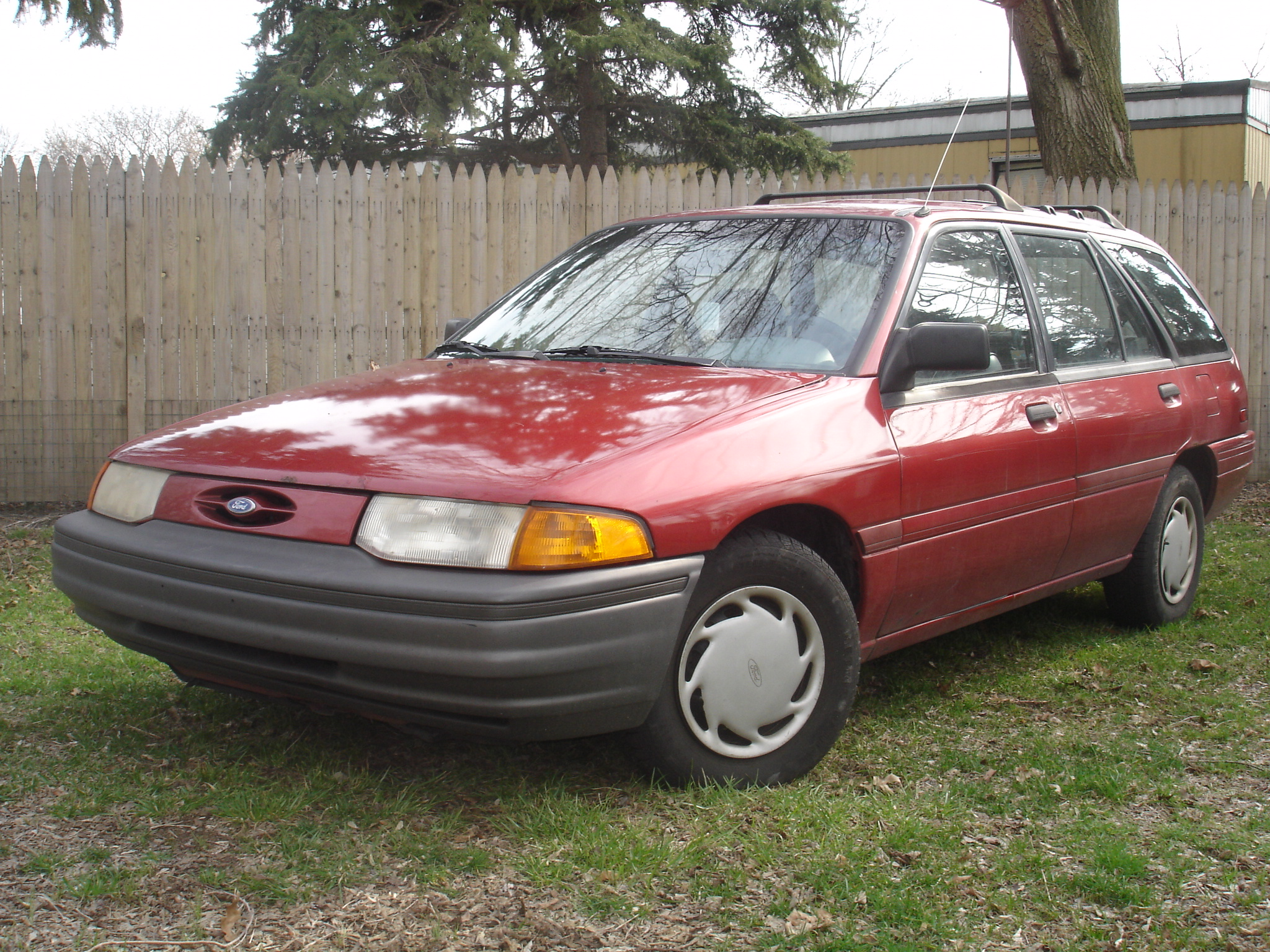 1993 Ford Escort (North American)